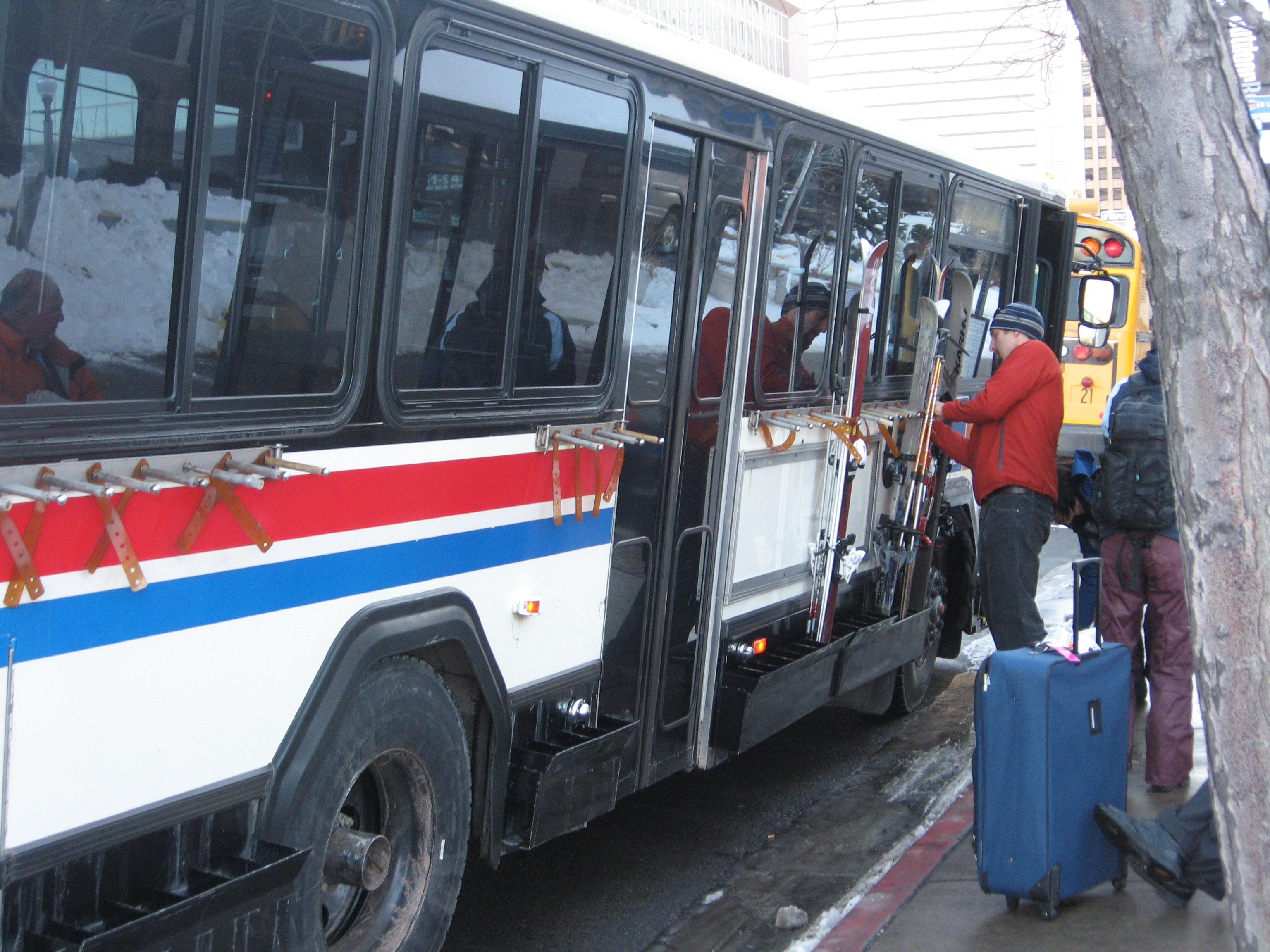 A Salt Lake City city bus with ski racks, in Utah, USA.